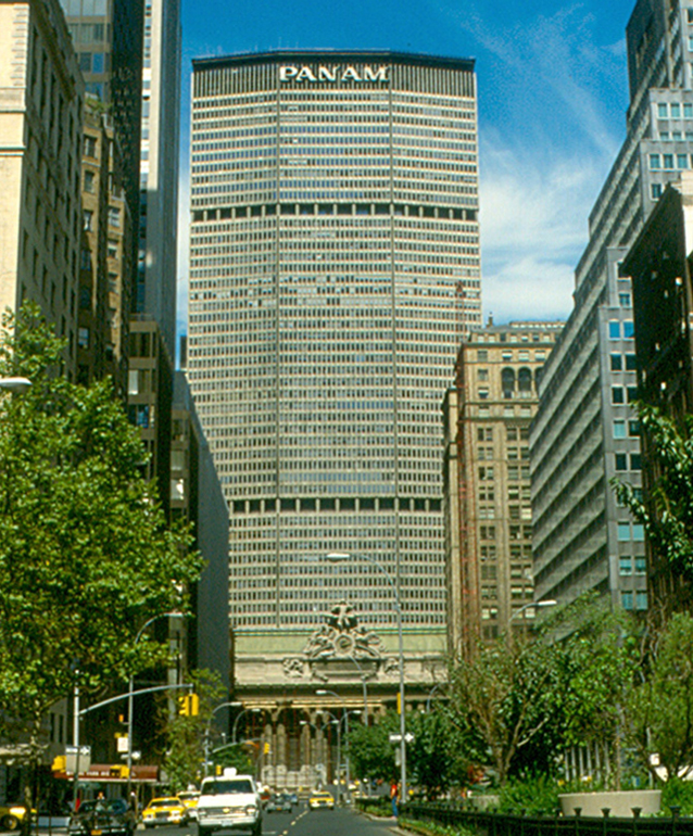 The Pan Am Building, seen from Park Avenue in 1980.. Grand Central Terminal is in front of it. The Pan Am Building is one of the most recognizable structures in New York. It was opened in 1963. It has 59 floors above ground, and is 808 ft (345 m) high. It is now called the MetLife Building.